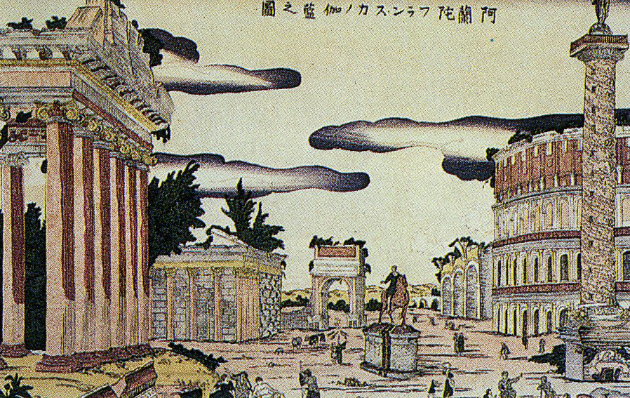 Depiction of Rome in an Edo period woodblock print by Utagawa Toyoharu, copied after a European engraving. Private collection, Japan.